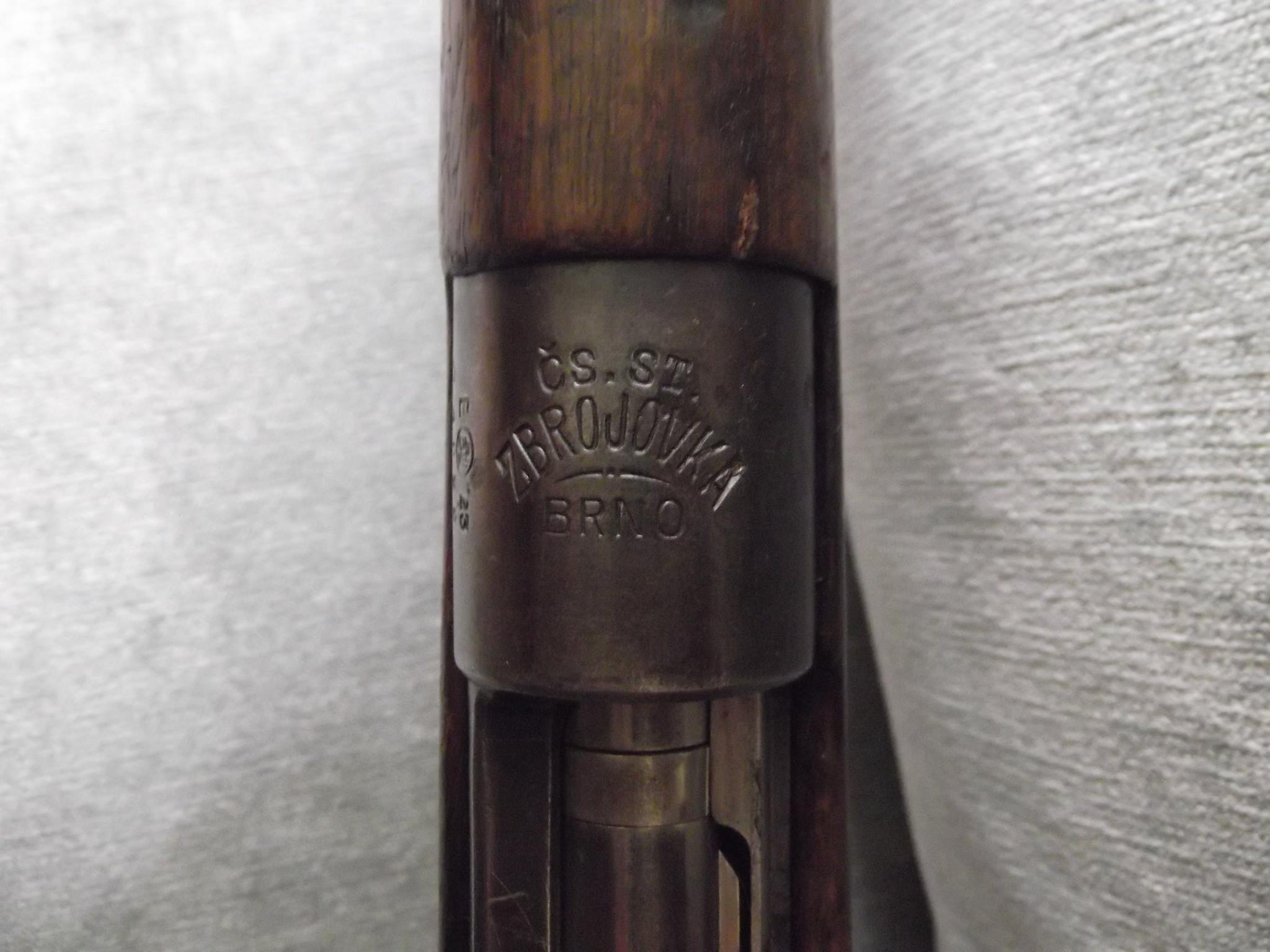 The curved shape receiver stamping.